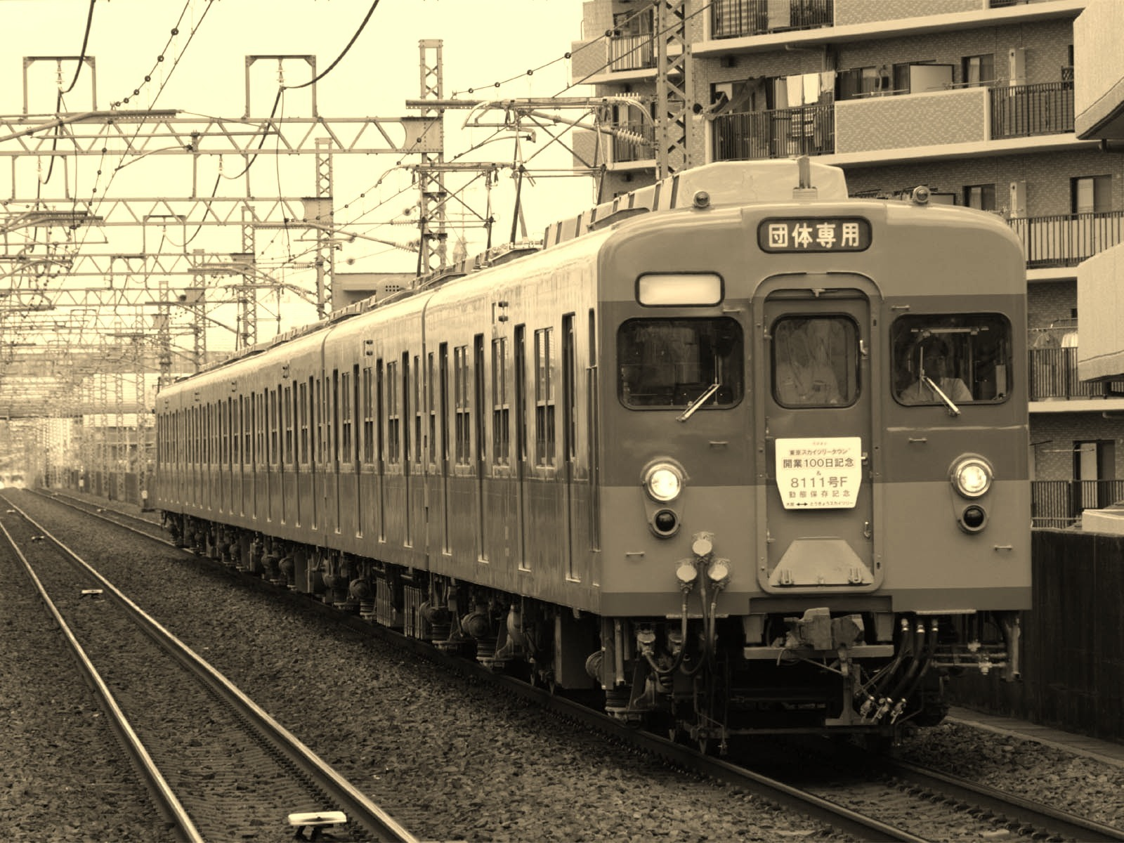 Tobu 8000 series EMU set 8111, owned by the Tobu Museum, on a charter service approaching Matsubara-danchi Station on the Isesaki Line